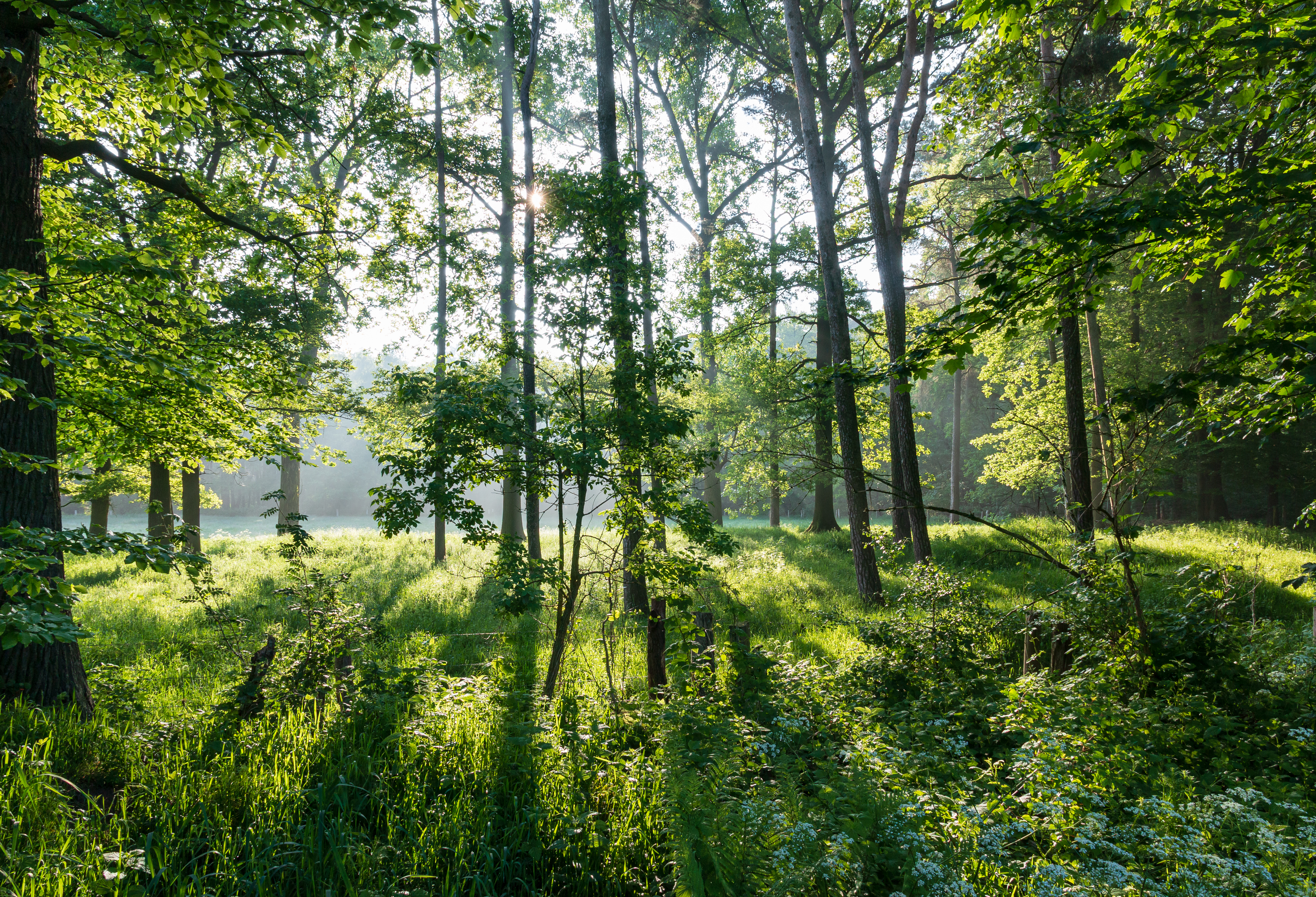 Nature reserve “Am Enteborn”, Dülmen, North Rhine-Westphalia, Germany